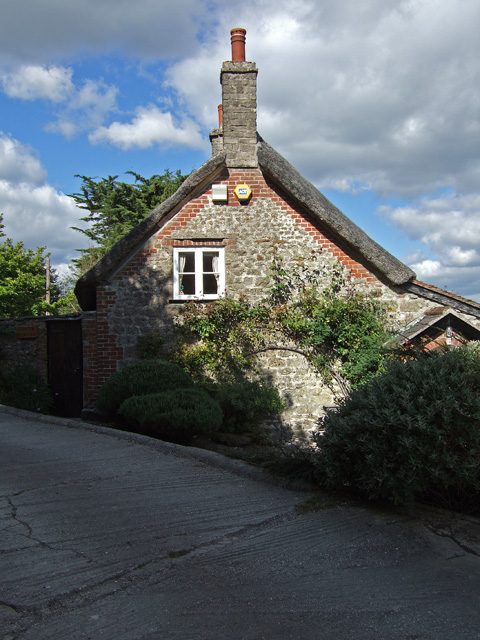 South facing gable end of Bookham Farmhouse